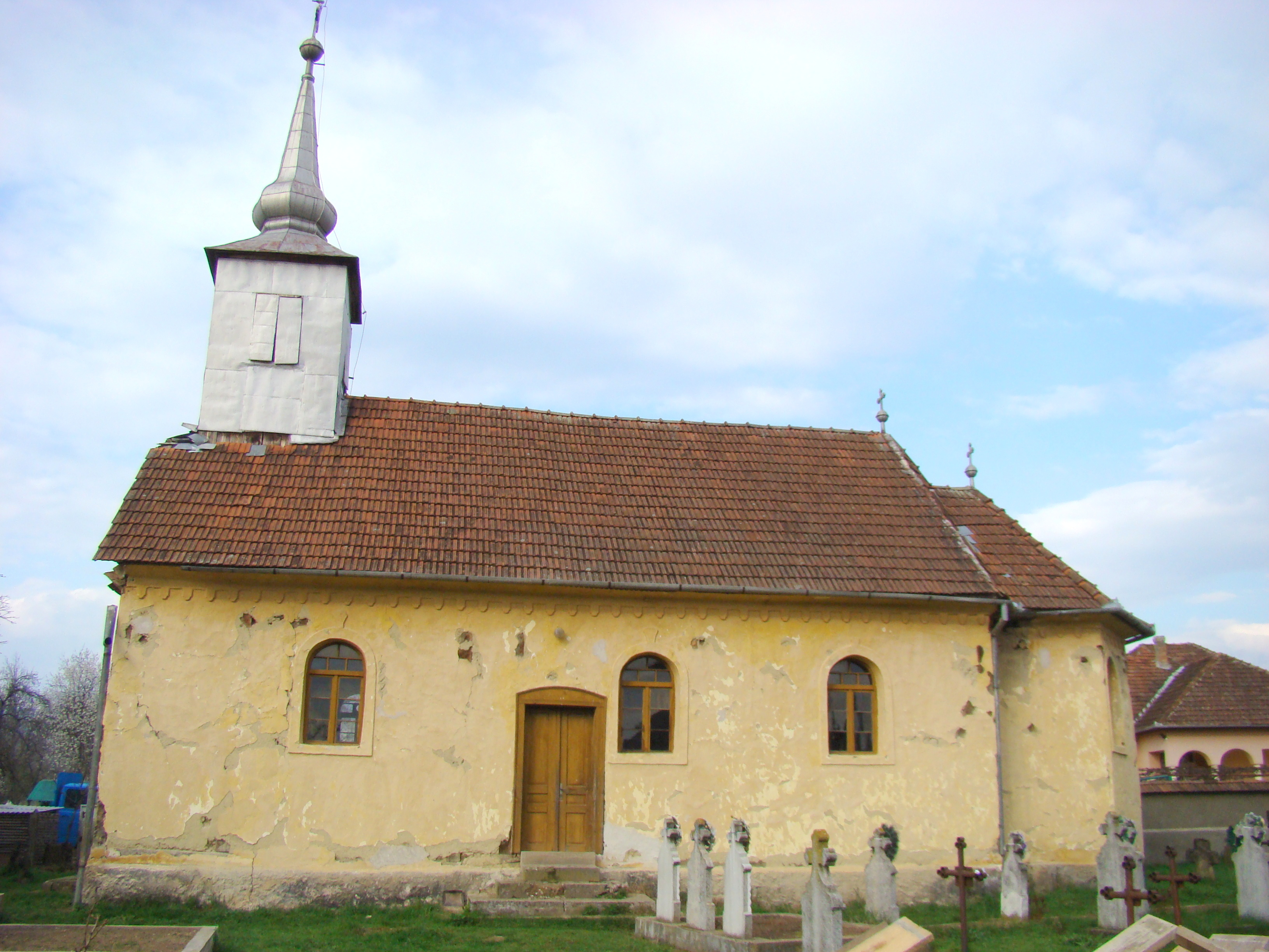 Wooden Church in Poienii de Sus, Bihor county, Romania